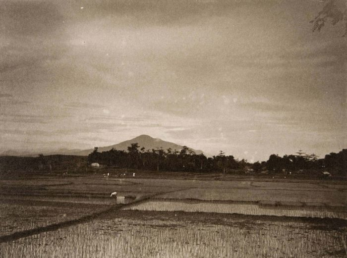 Ricefields and volcano, Kadipaten